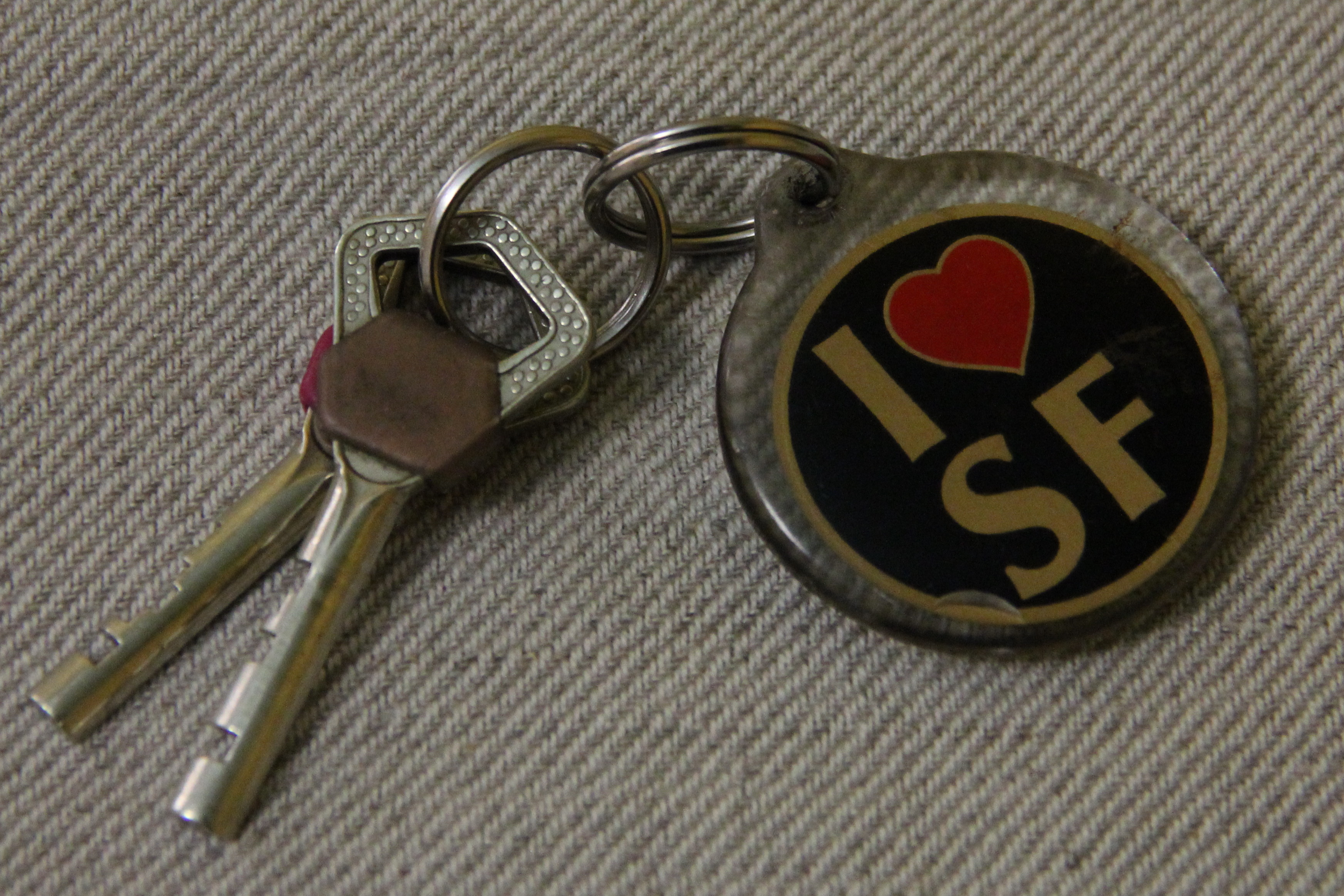 Abloy Classic lock and padlock keys.